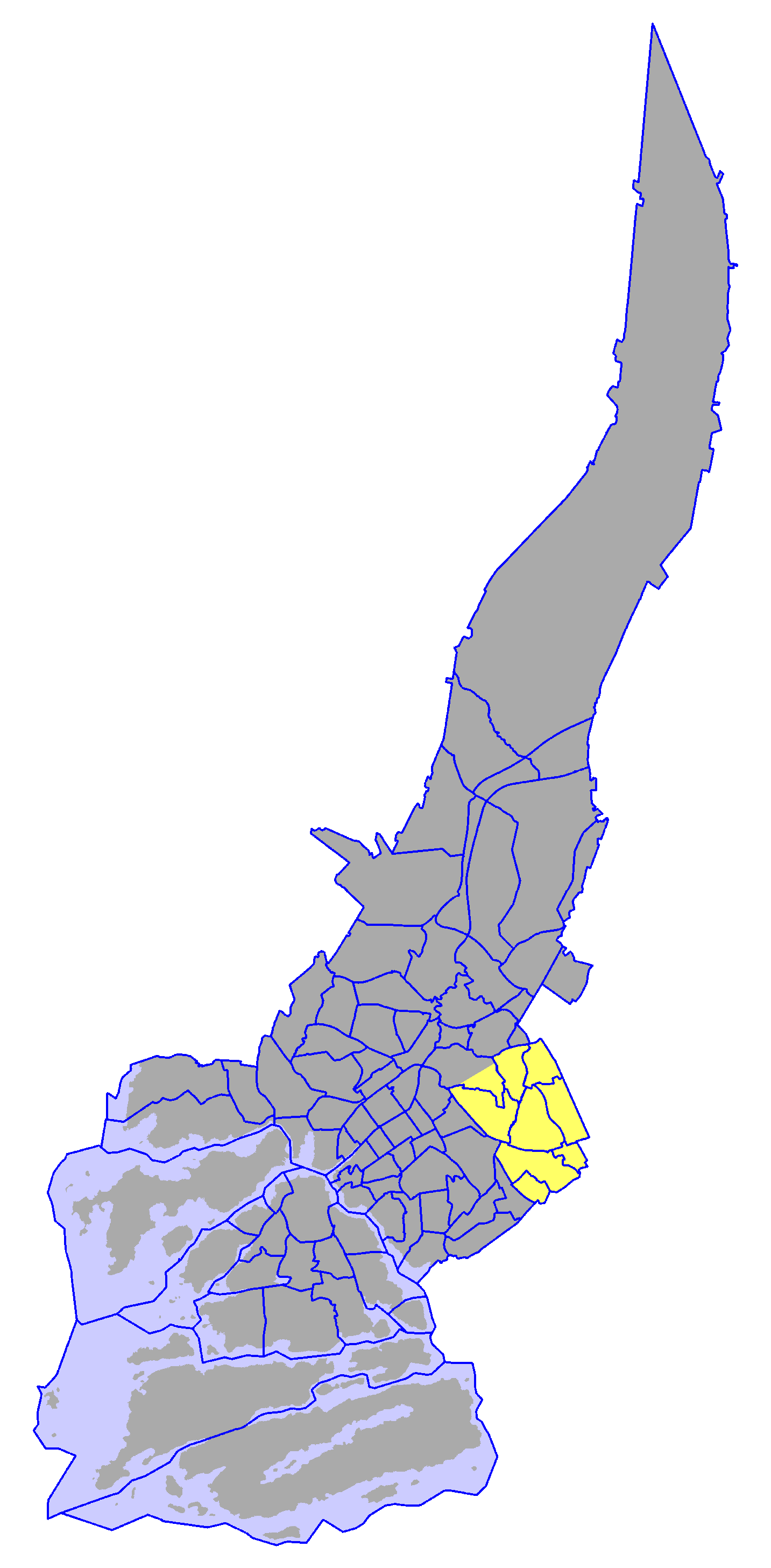 Ward of Itäharju-Varissuo, in Turku